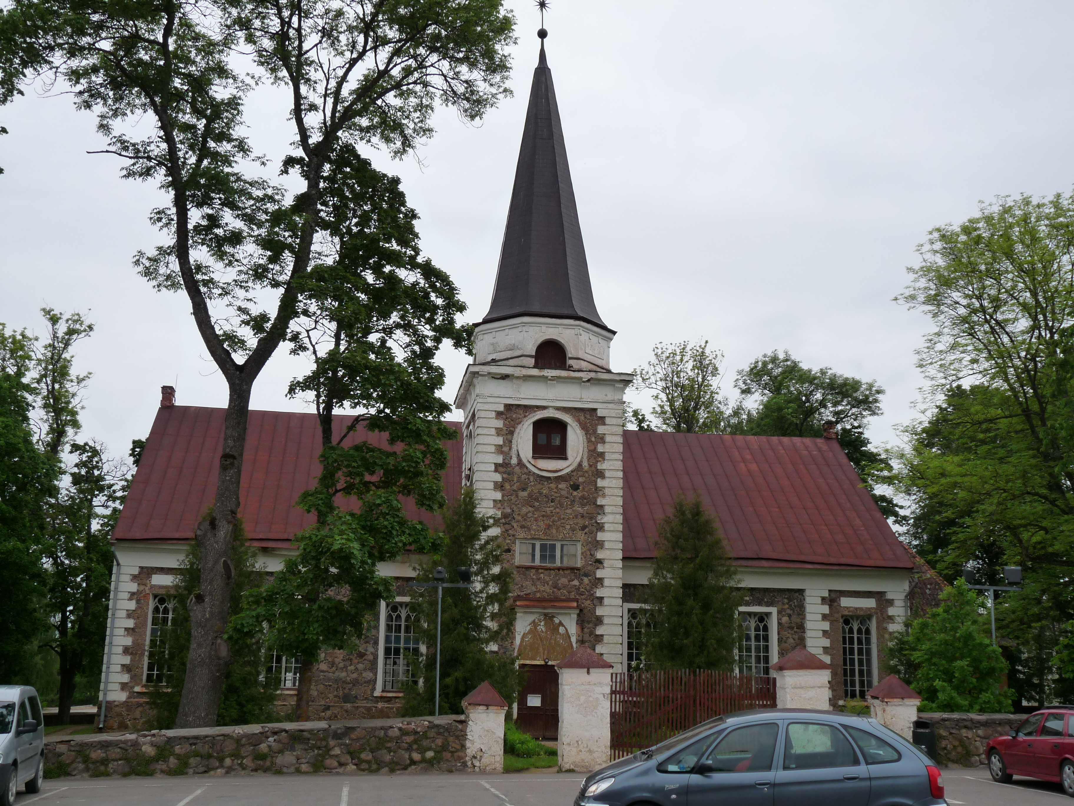 The Jaani church in Kanepi, built from 1804 to 1810.